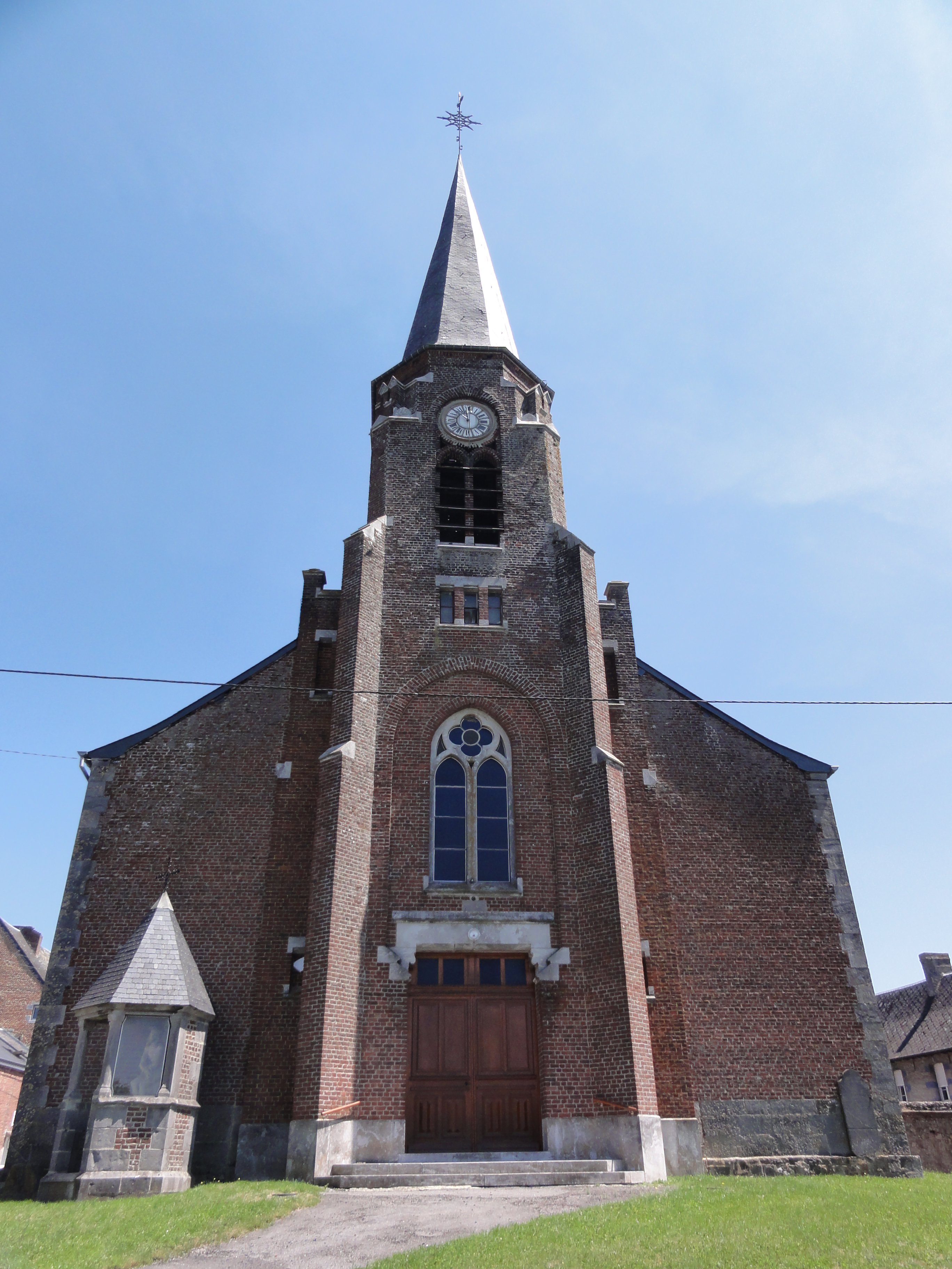 Sémeries (Nord, Fr) église façade .